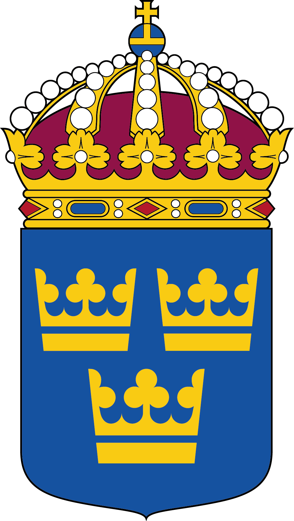 The minor coat of arms of Sweden. Drawn by Henrik Dahlström when he was the heraldic artist at the National Archives of Sweden (Riksarkivet). This representation of a coat of arms is potentially different from the one used by the armiger (municipality or organisation) in question. = ⇑“Sable, a lionrampant or” This coat of arms was drawn based on its blazon which – being a written description – is free from copyright. Any illustration conforming with the blazon of the arms is considered to be heraldically correct. Thus several different artistic interpretations of the same coat of arms can exist. The design officially used by the armiger is likely protected by copyright, in which case it cannot be used here.Individual representations of a coat of arms, drawn from a blazon, may have a copyright belonging to the artist, but are not necessarily derivative works. Further information: Commons:Coats of arms and Template:Coa blazon